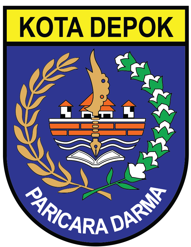 Shield of the city of Depok